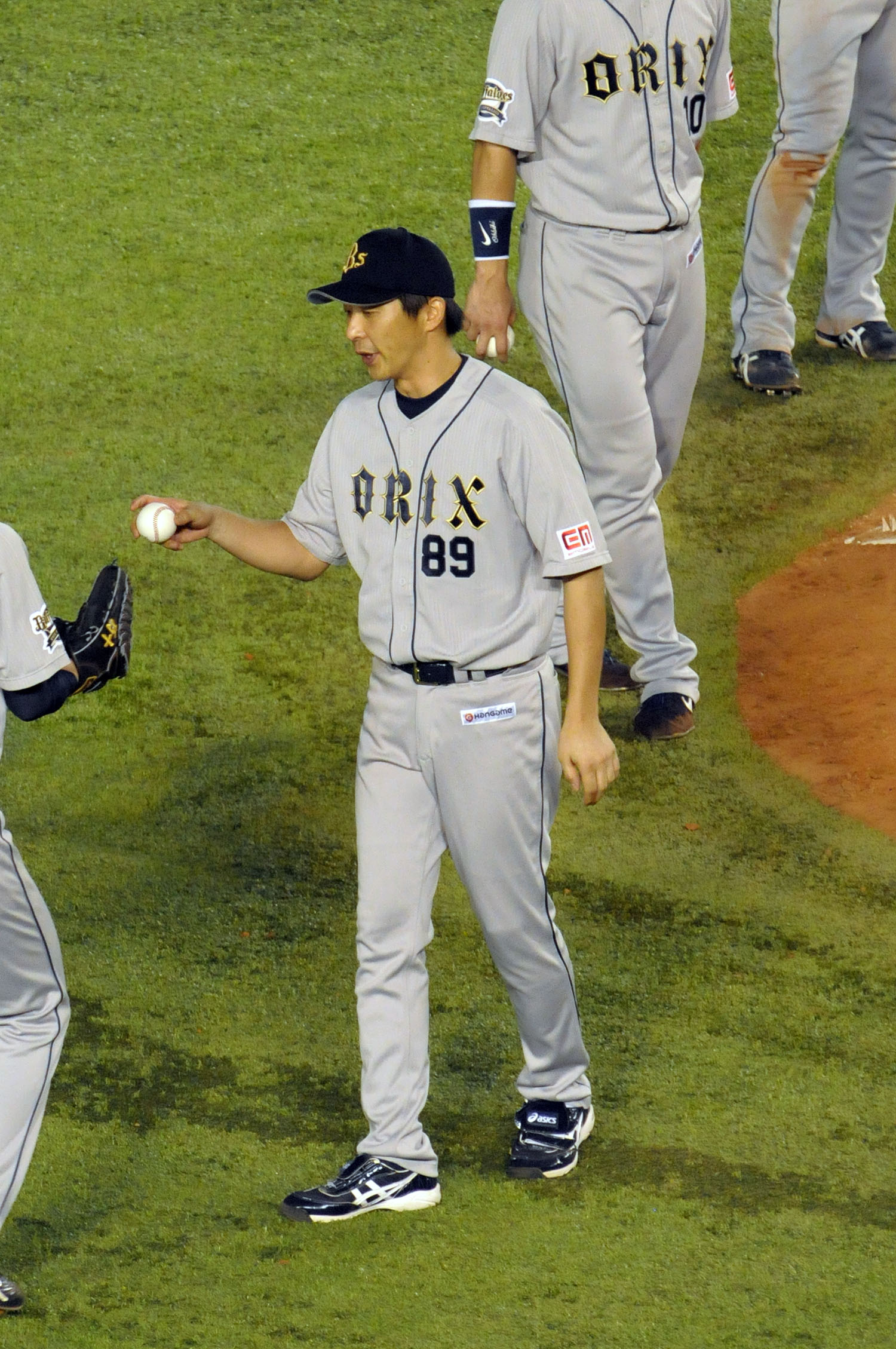 Hiroshi Kobayashi, coach of the Orix Buffaloes, at Chiba Marine Stadium.